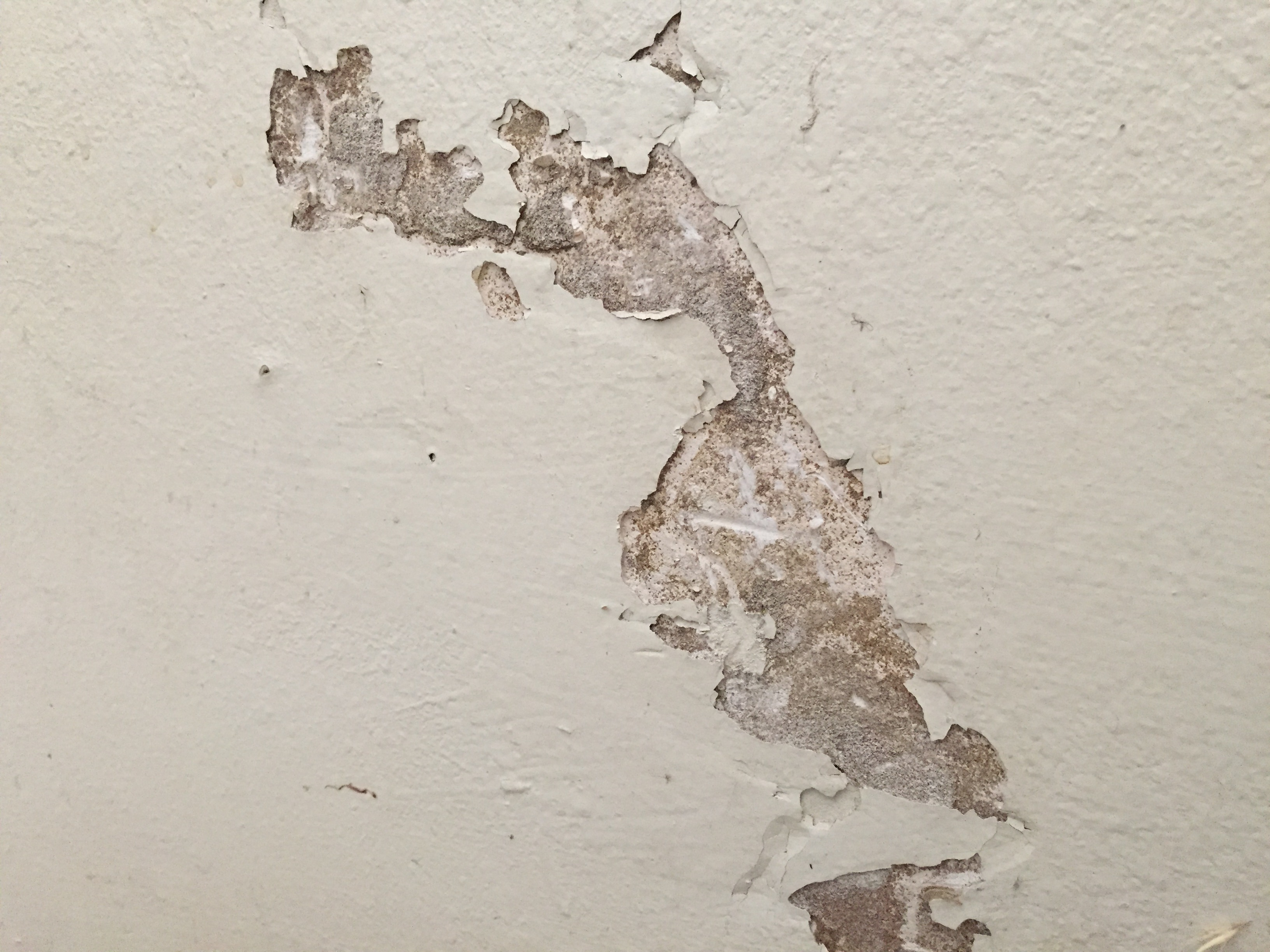 Shows drywall damage caused by termites eating the interior paper facer, resulting in the painted surface crumbling to the touch.